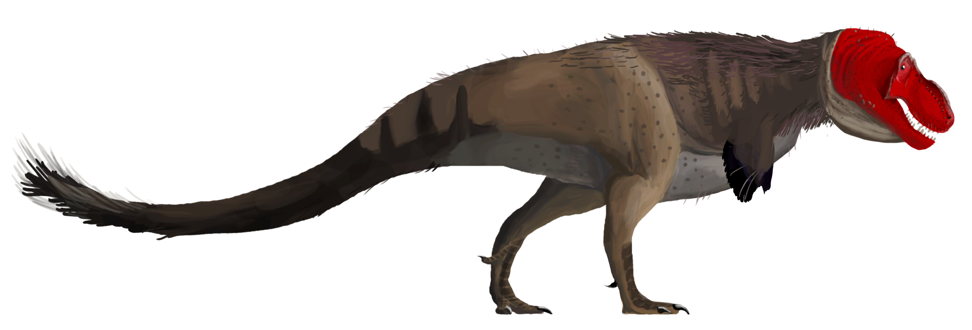 Life restoration of Tyrannosaurus rex based on specimen AMNH 5027.